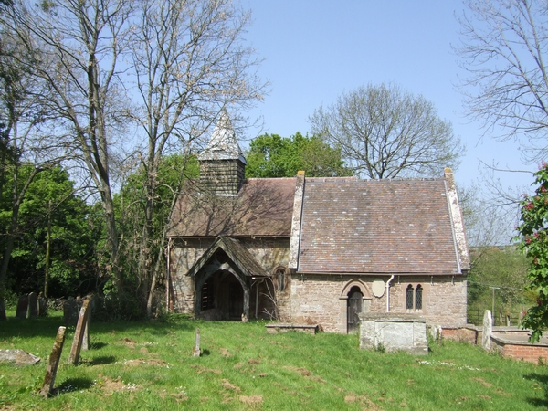 St Michael's Church, near to Upton Cressett, Shropshire, Great Britain. Reached by a tortuous country lane the church lies in a quiet valley next to the Elizabethan Hall. The basically Norman church is no longer in use but is preserved by the Churches Conservation Trust.